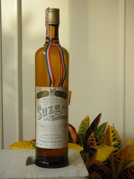 A bottle of Suze Gentiane